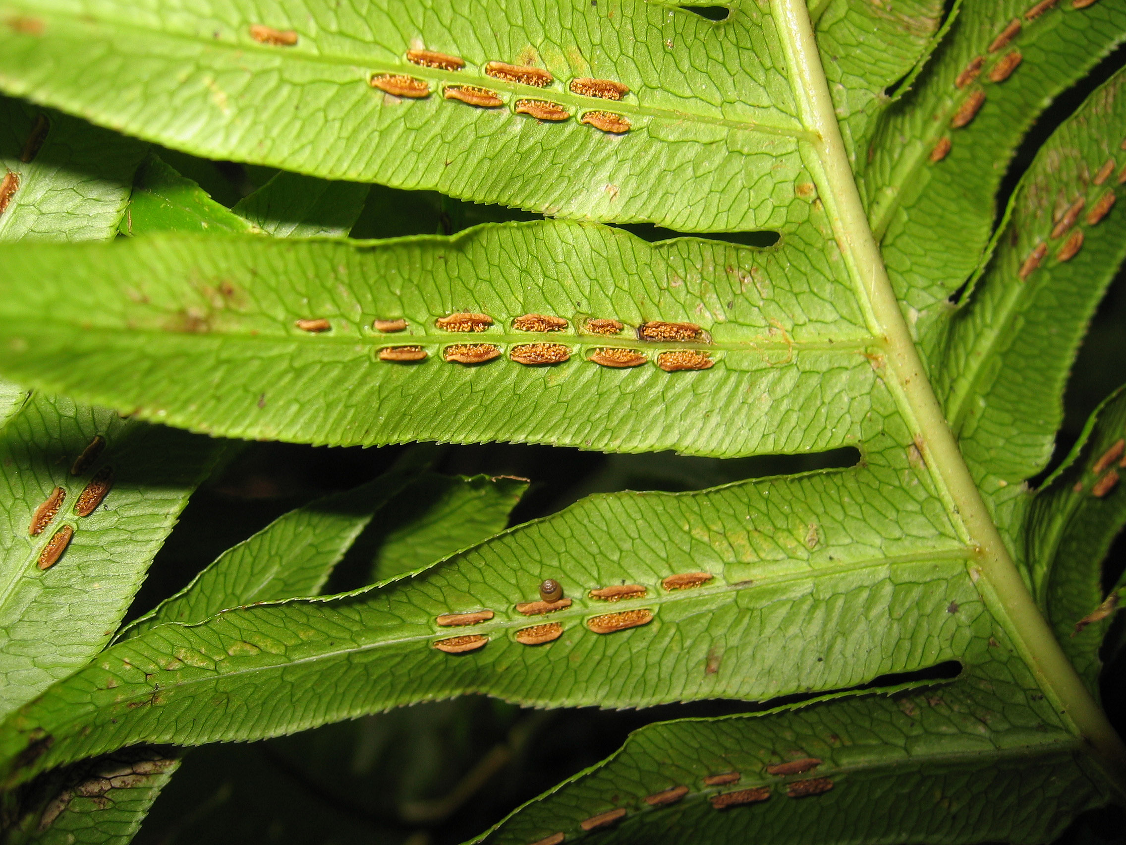 Sori of Woodwardia radicans, Cubo de la Galga, La Palma, Spain